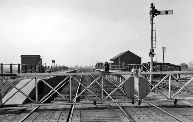 Black Bank Station. View NW, towards March; March - Ely main line. This station was closed to passengers just 10 days later (17/6/63), but was open for goods until 19/4/65. Typical Fenland scene: everything dead level and dead straight.